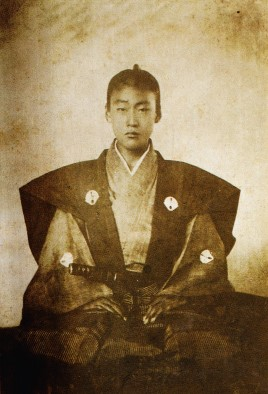 Nabeshima Naohiro as a young man